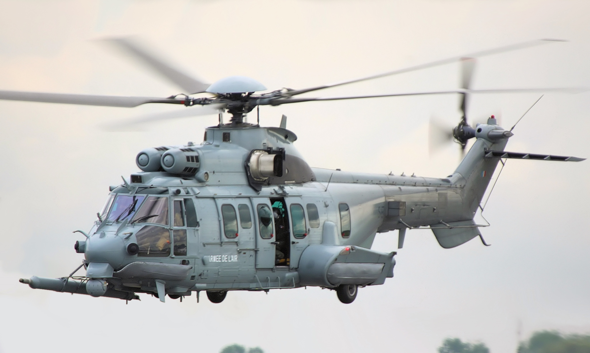 EC-725 Caracal - RIAT 2009